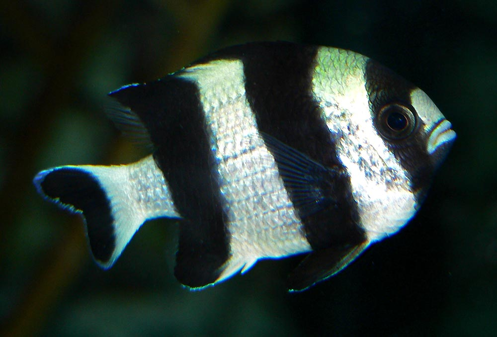 Photo of Dascyllus melanurus (blacktail humbug) at the Vancouver Aquarium